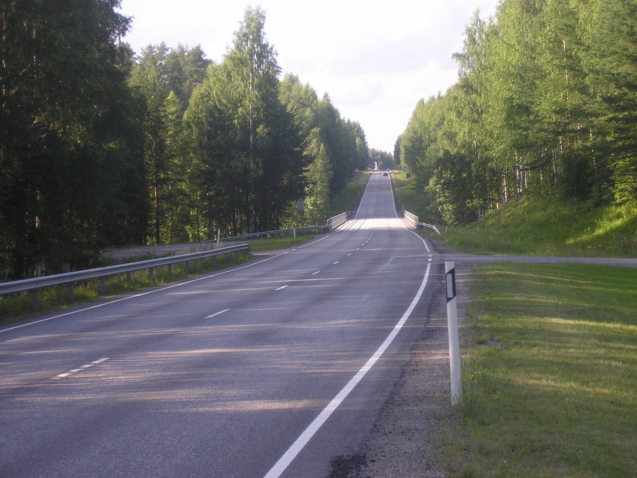 Main road 6 in Kitee, Finland.